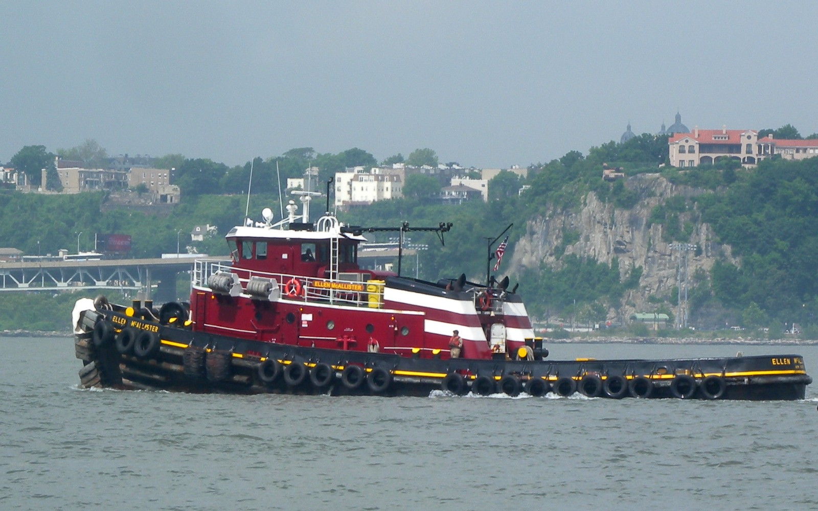 Looking west from Pier 84 at Ellen McAllister passing Weehawken on a slightly hazy midday.